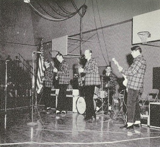 The Beach Boys performing at Taft High School, California in the early 1960s.